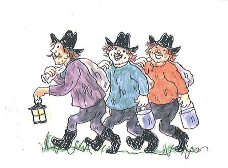 The three bandits Kasper and Jesper and Jonatan, created and drawn by Thorbjørn Egner. From his book about Kardemomme city. Please credit the artwork as Drawing: Thorbjørn Egner.